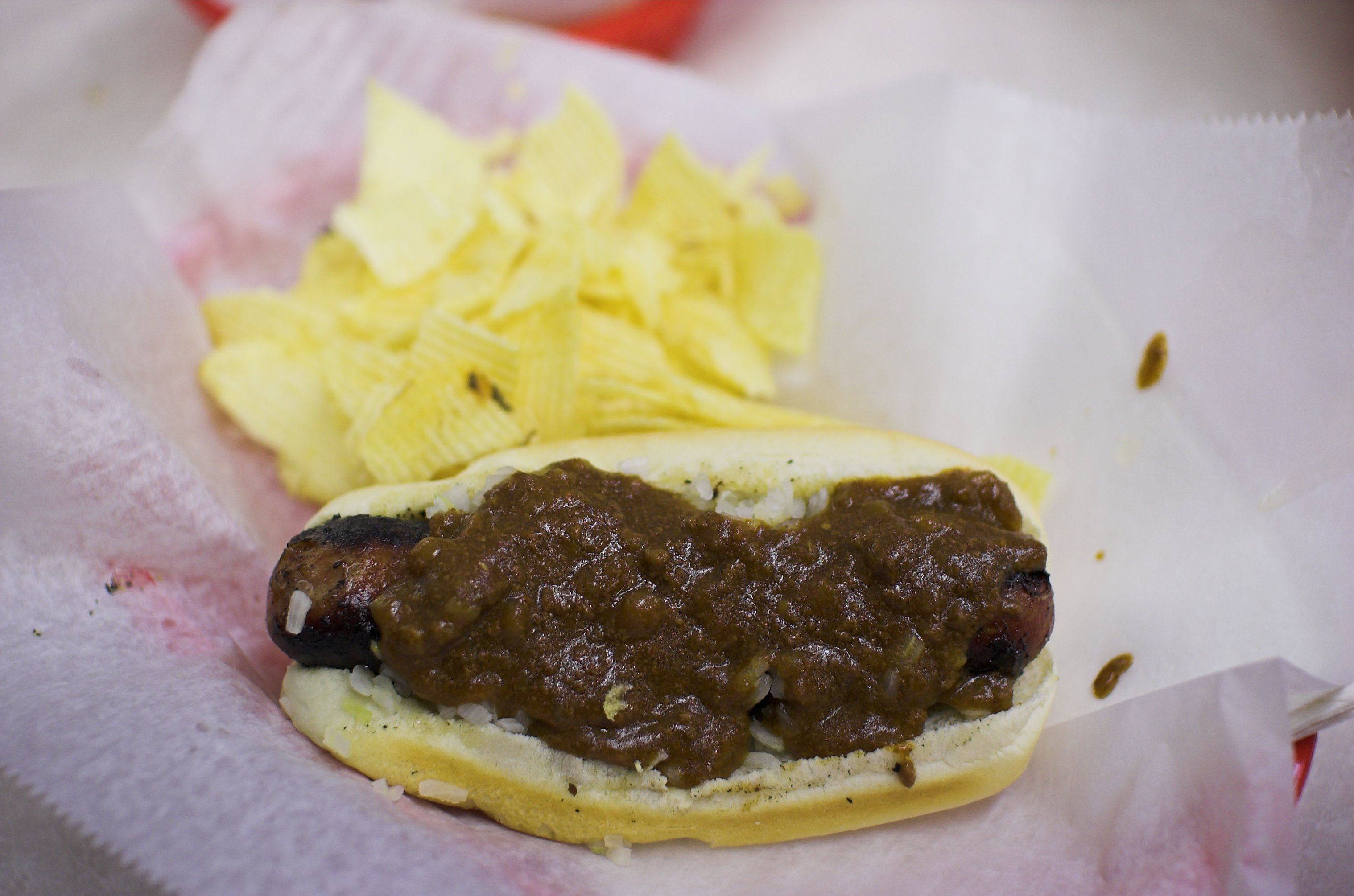 Chili half smoke with chips from Ben's Chili Bowl, Washington, D.C.